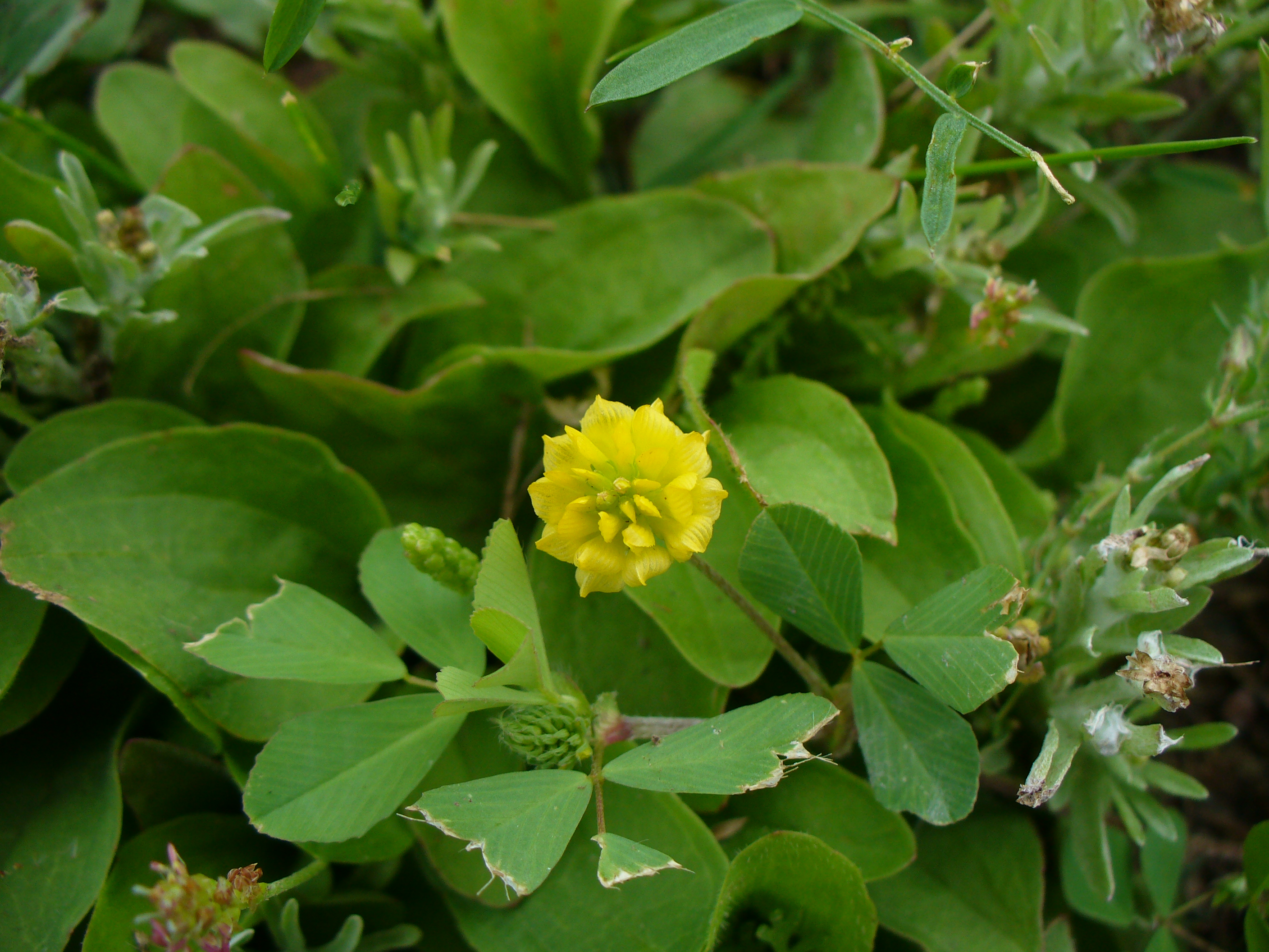 I am the originator of this photo. I hold the copyright. I release it to the public domain. This photo depicts a flower.